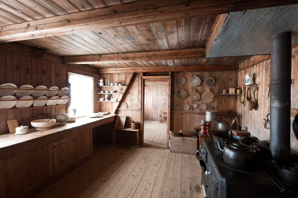 The kitchen at Grenjaðarstaður